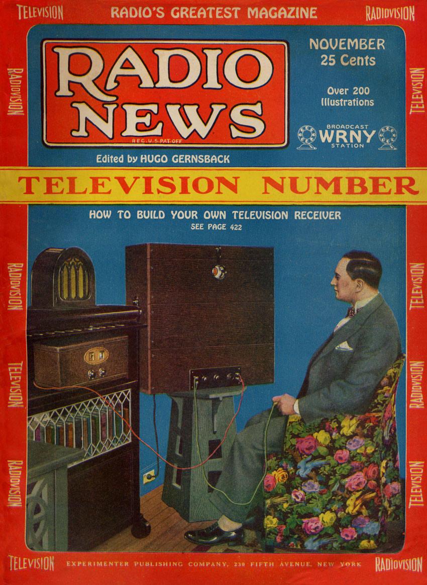 Hugo Gernsback in his Manhattan apartment is watching a television broadcast from his WRNY station in August 1928. The 1.5 inch square picture is low definition; 48 scan lines at 7.5 frames per second. Hugo is holding the manual synchronization control. A photograph of this scene is on page 422 of this issue. Image:Radio News Nov 1928 pg422.png Radio News, November 1928. Volume 10 Number 5. Published by Experimenter Publishing, New York, NY Editor-in-Chief and Publisher: Hugo Gernsback Table of Contents Image:Radio News Nov 1928 pg402.png The page numbers were on an annual basis, not per issue. This issue had pages 401 to 512. The magazine is 8.5 by 11.5 inches (23 by 29 cm).